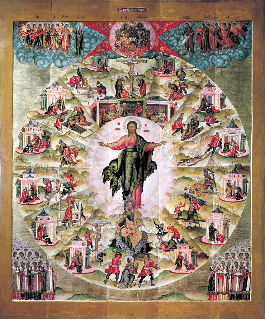 Ministry of the Apostles, a complex multi-figure icon with a full-height image of Jesus Christ, surrounded by sectors with scenes of His disciples' calling, ministry and martyrdom. Icon from the Yaroslavl Museum Preserve.